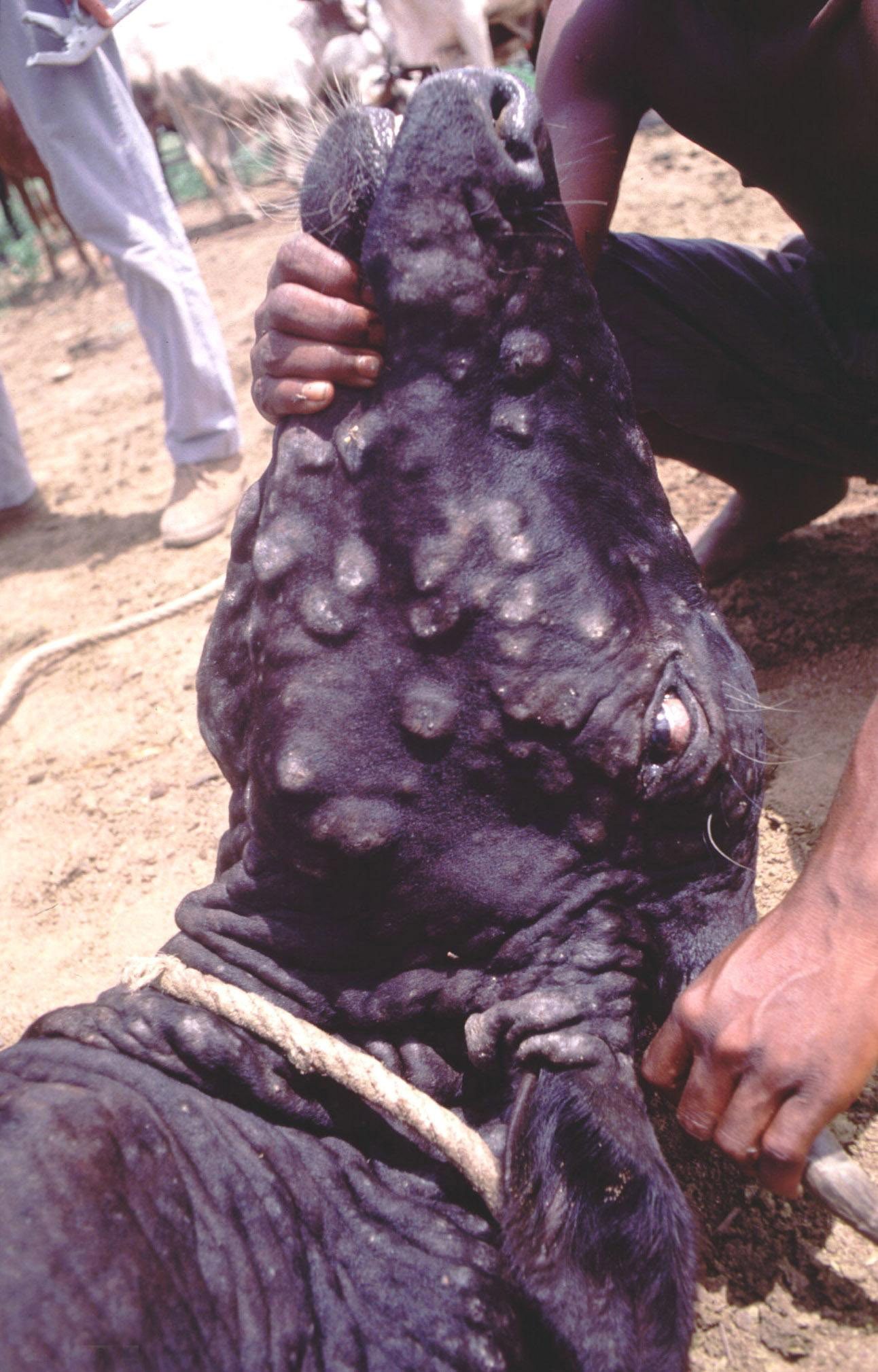 A steer in West Africa showing severe infestation with demodex mites in its skin, forming large plaques.